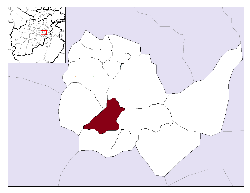 District locator in Kabul Province